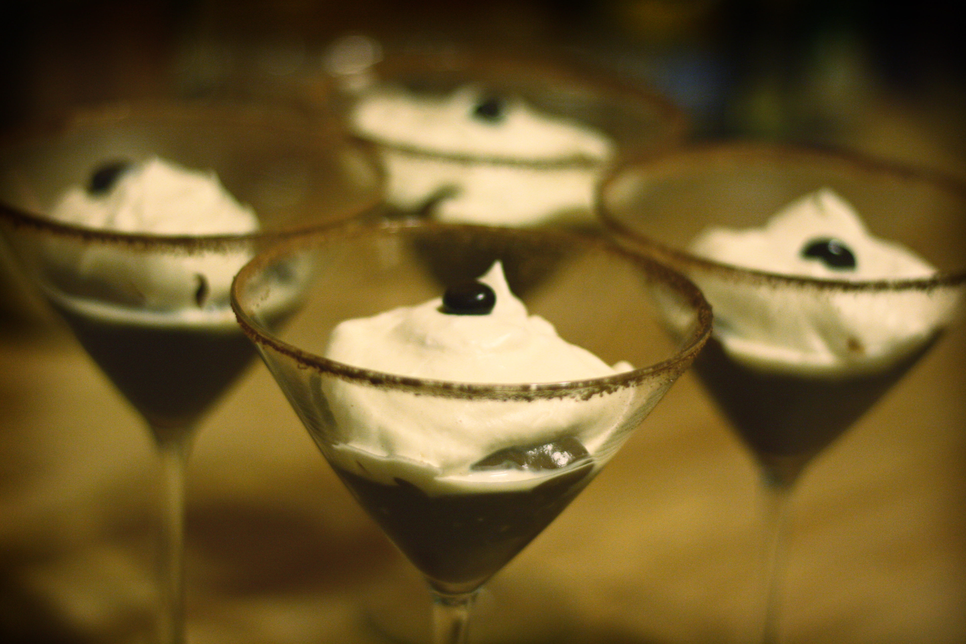 Chocolate pudding in glasses